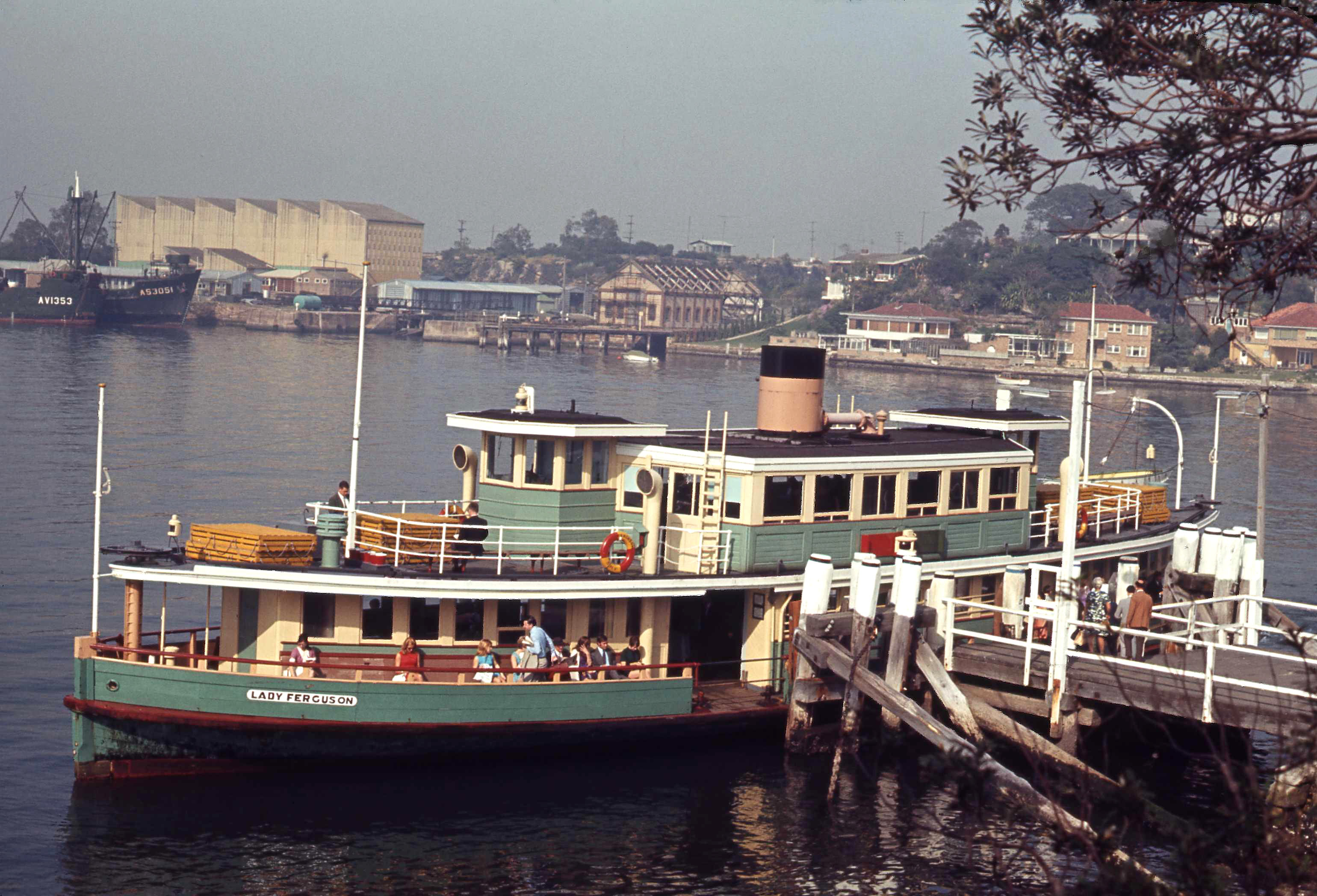 Sydney ferry LADY FERGUSON at Valentia St Wharf Woolwich 6 October 1970. John Ward, John Ward Collection - Shipping (06/10/1970), [A-01074397]. City of Sydney Archives, accessed 07 Jun 2020